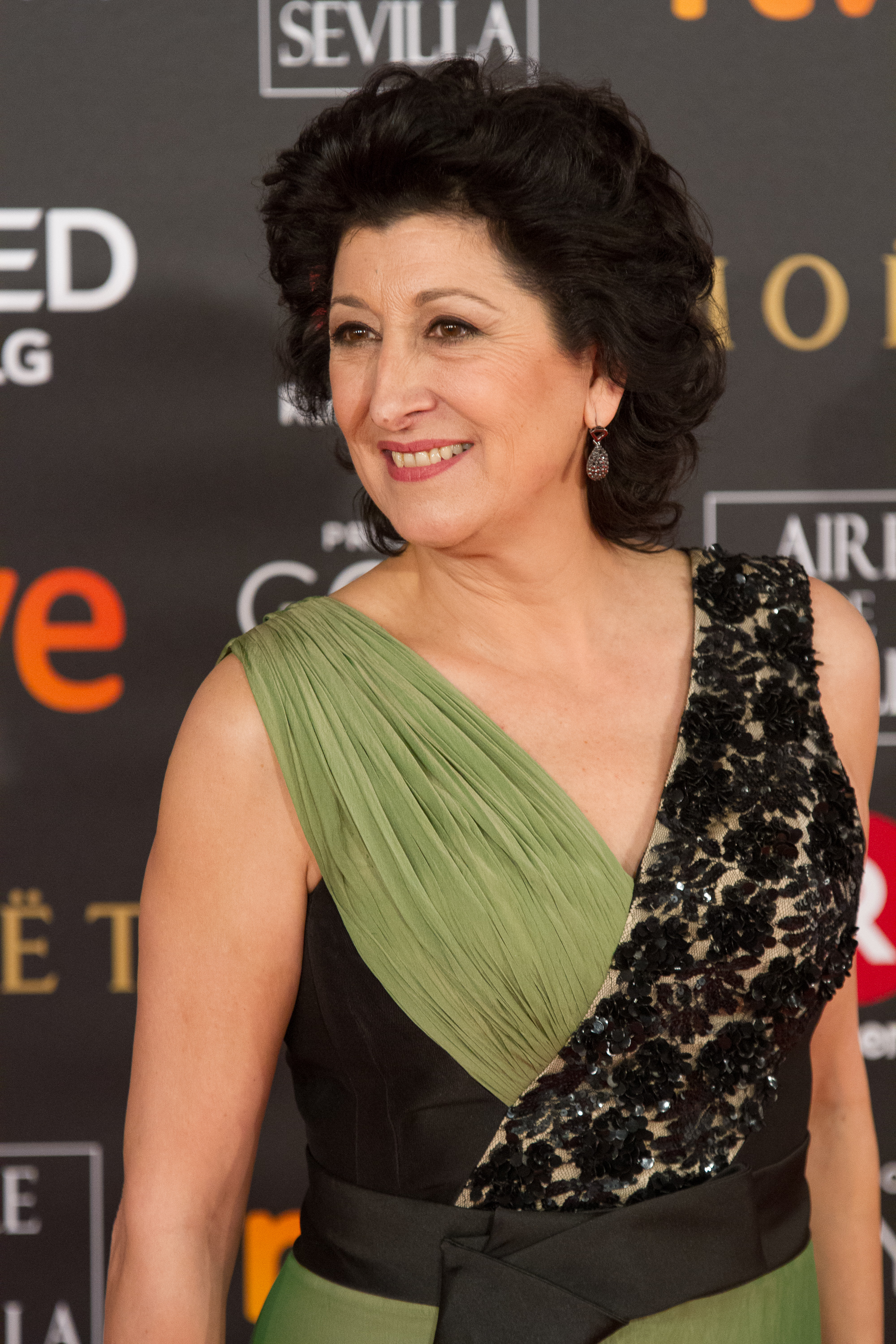 32nd Goya Awards, 2018.